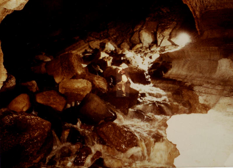 Big Rapids in the Dry Season, Sof Omar Cave, Ethopia 1972 British Speleological Expedition to Ethopia